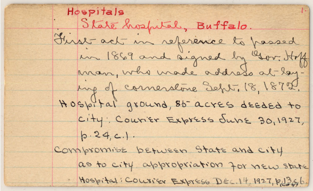 Subjects: Buffalo State Hospital -- History. Buffalo Psychiatric Center -- History. Buffalo (N.Y.) -- Buildings, Structures, etc. Historic Buildings -- New York (State) -- Buffalo Architecture -- New York (State) -- Buffalo Repository: Grosvenor Room, Central Library, Buffalo and Erie County Public Library, 1 Lafayette Square, Buffalo, NY 14203-1887. Part of: Local History File